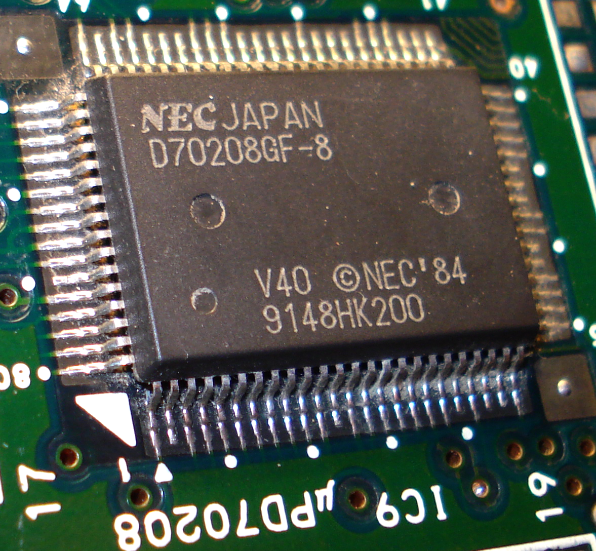 NEC V40 microprocessor